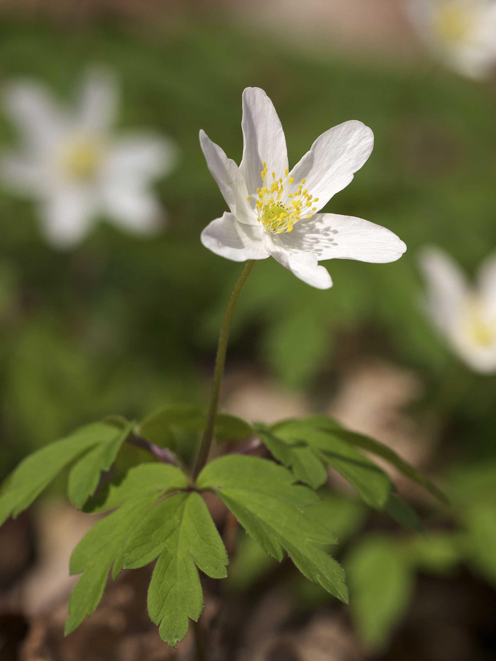 Wind flower (Anemone nemorosa), Chemnitz, Germany